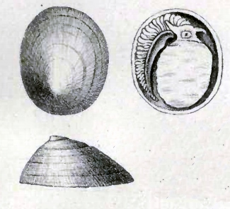 Addisonia excentrica (Tiberi, 1855); family Addisoniidae